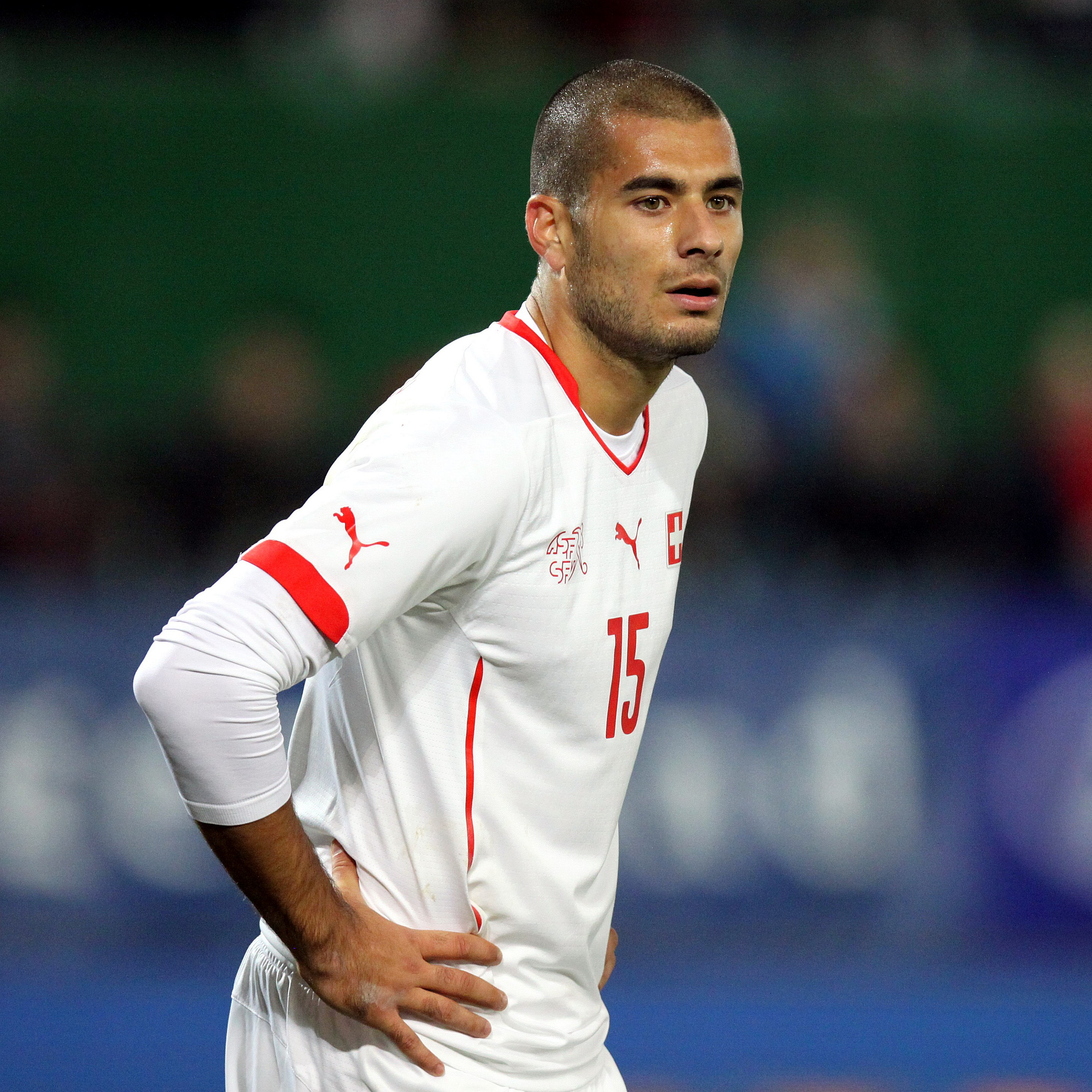 Friendly match – Austria (red shirts) vs. Switzerland (white shirts) 1-2 (1-2) – 2015-11-17 in Vienna, Ernst-Happel-Stadion – The photo shows Eren Derdiyok.